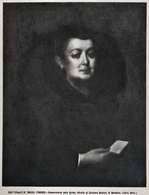 Portrait, Painting " Ritratto di Eleonora Ramirez di Montalvo " Eleonora Ramirez Montalvo Landi (1602–1659) was declared venerable by Pope John Paul II